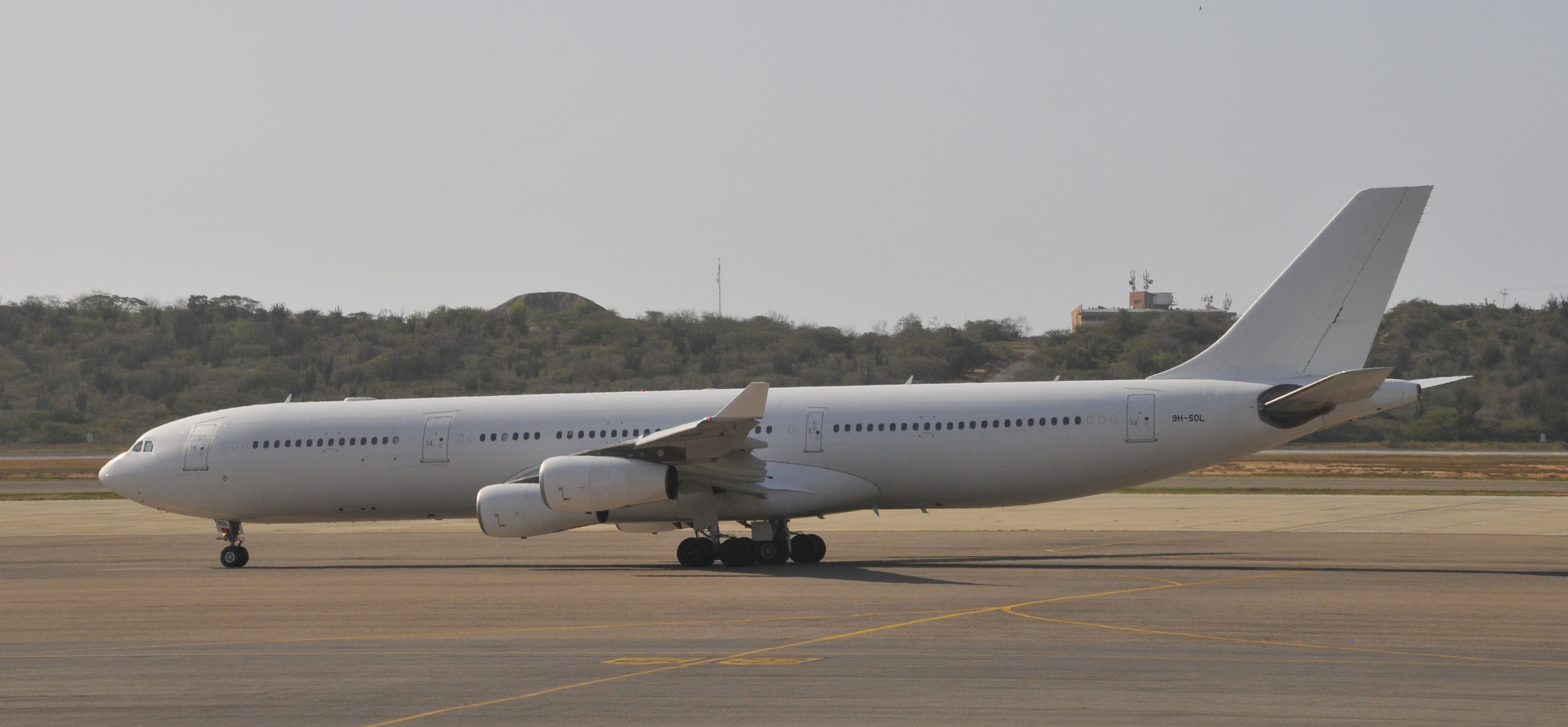 A340 owned by HiFlyMalta